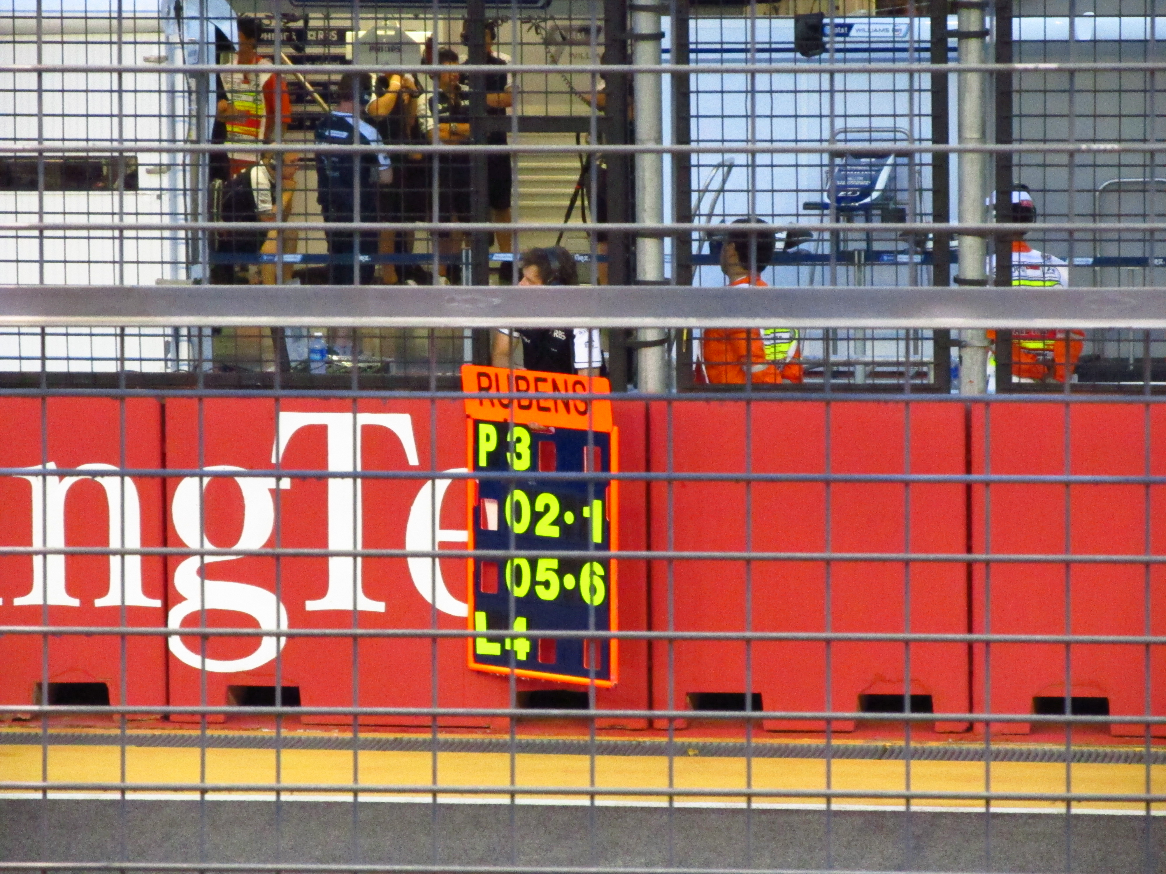 Pitboard for Rubens Barrichello during first practice for the 2010 Singapore Grand Prix at Marina Bay Street Circuit on September 24, 2010.